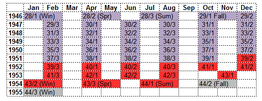 Grid showing volume number/issue number of Thrilling Wonder Stories from 1946 to 1955. The color coding indicates the editor, as follows: Purple: Sam Merwin Red: Samuel Mines Gray: Alexander Samalman